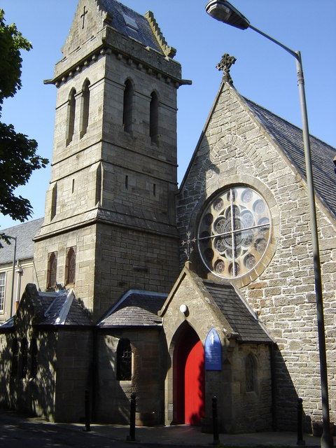 St. Magnus Episcopal Church, Lerwick The Scottish Episcopal Church is part of the Anglican Communion.